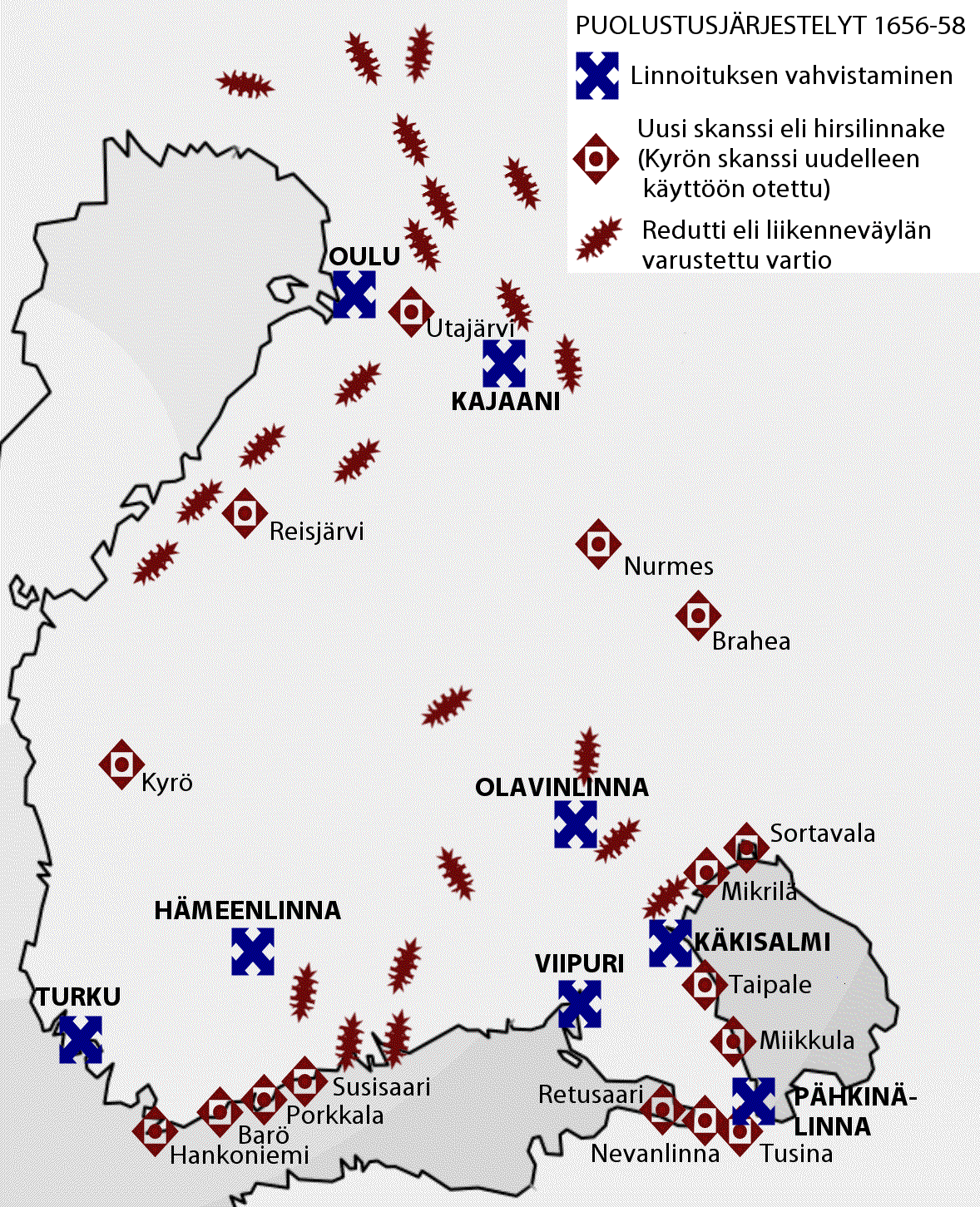 Map over defences built in Finland during Swedish-Russian war on 1656-1658. Source of information: Jussi Lappalainen (2001), Sadan vuoden sotatie - Suomen sotilaat 1617-1721. Suomen kirjallisuuden seura. Helsinki. ISBN 951-746-286-7